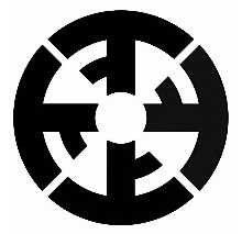 Kamisato Saitama chapter